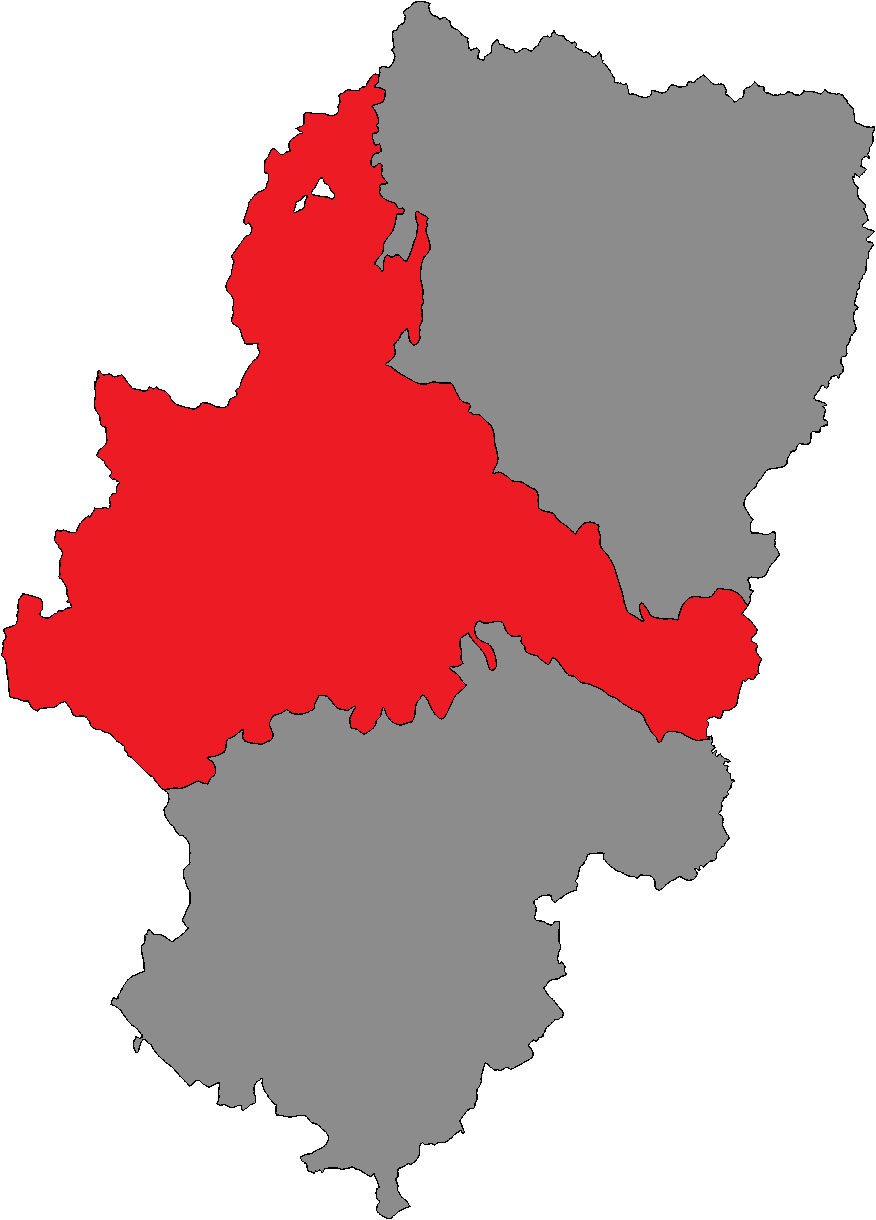 Aragonese Cortes district of Zaragoza.